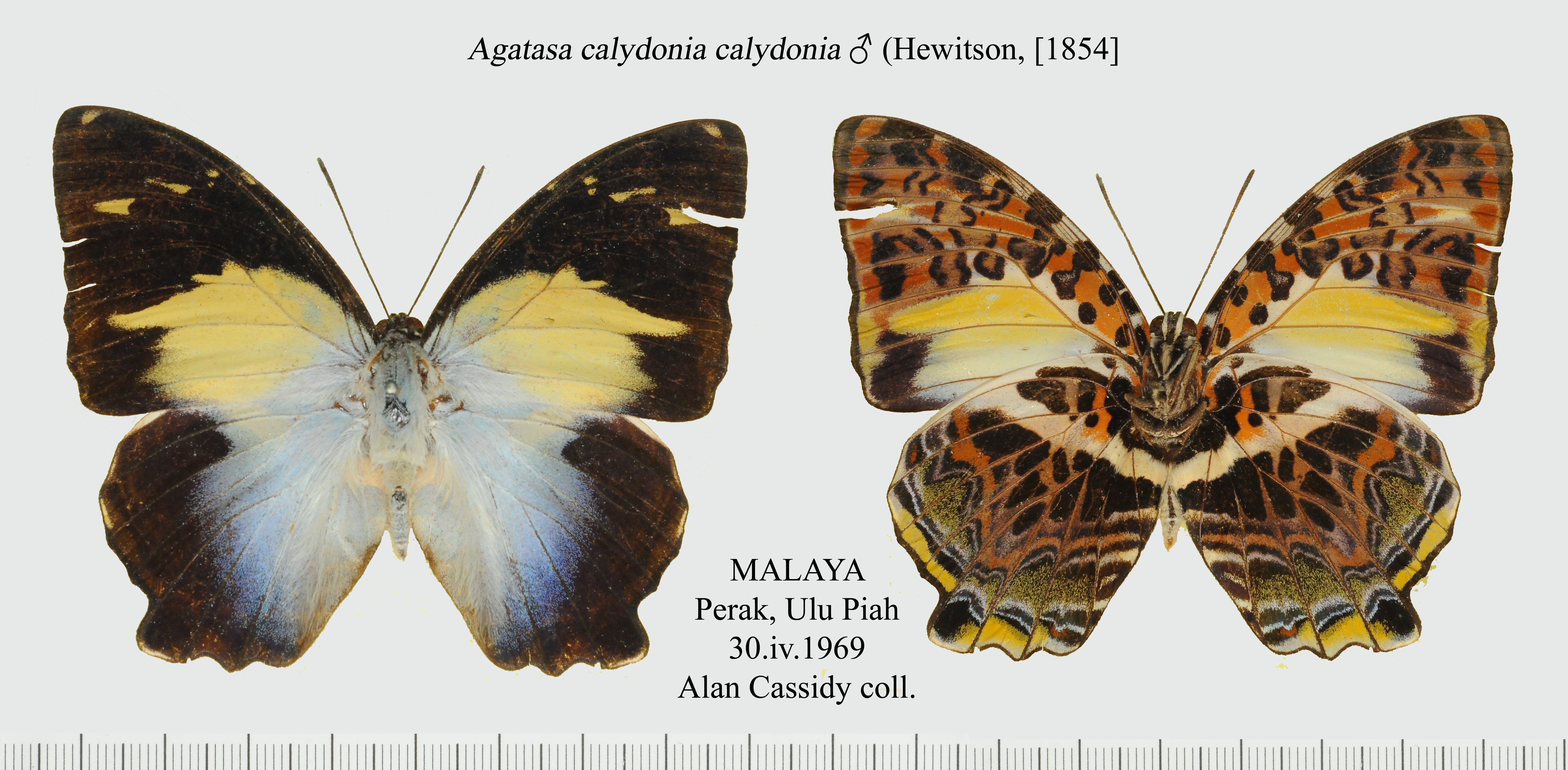 Agatasa calydonia, ♂, from Type Locality in W. Malaysia, Alan Cassidy photo.